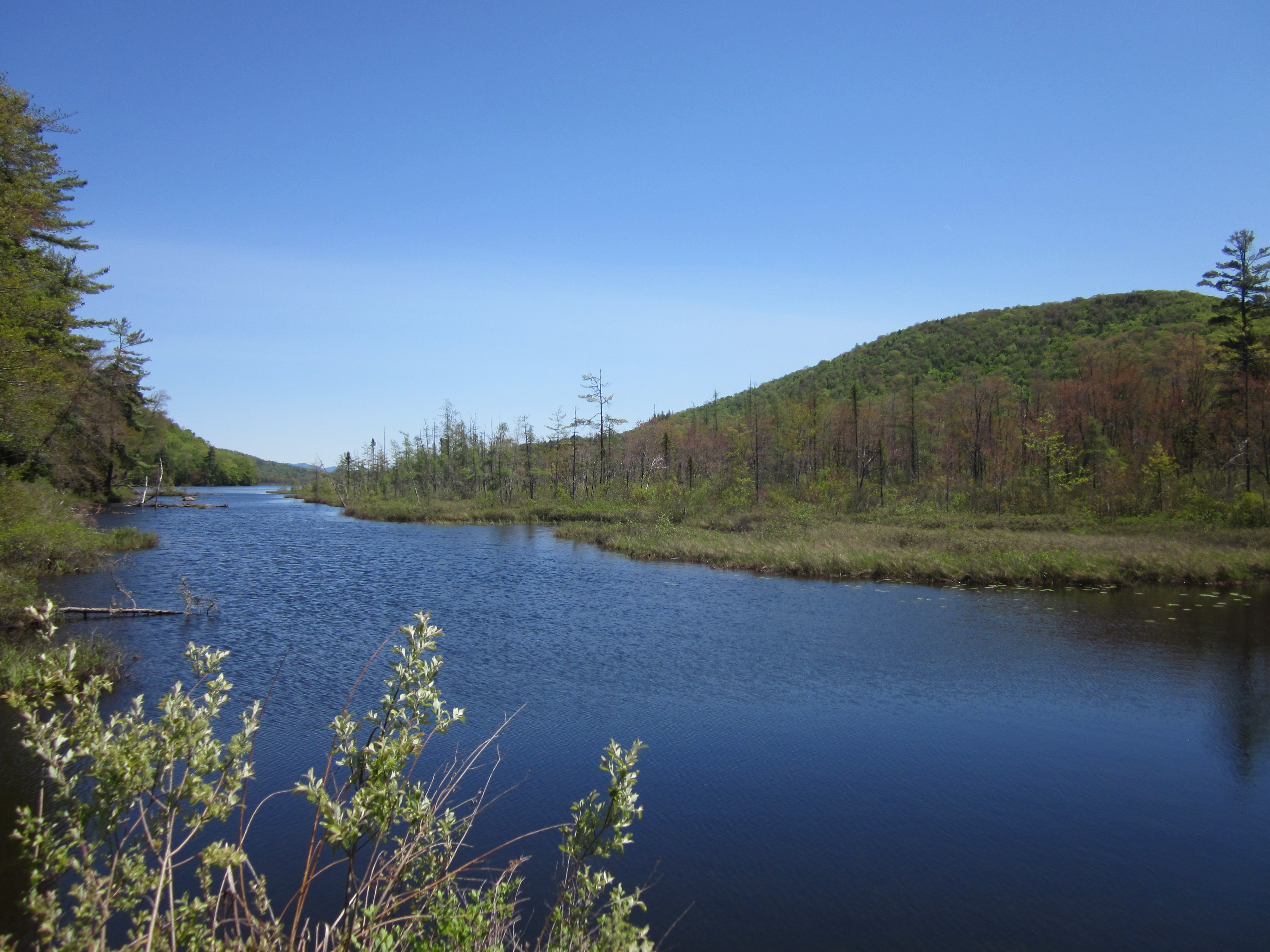 Narrow end of Oxbow Lake at the outlet (southwest end of the lake)